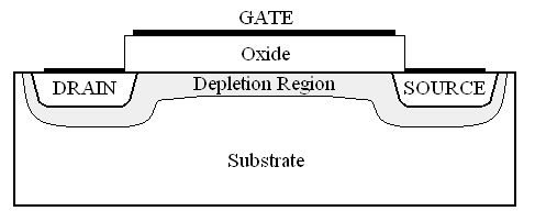 Side view of a CMOS transistor